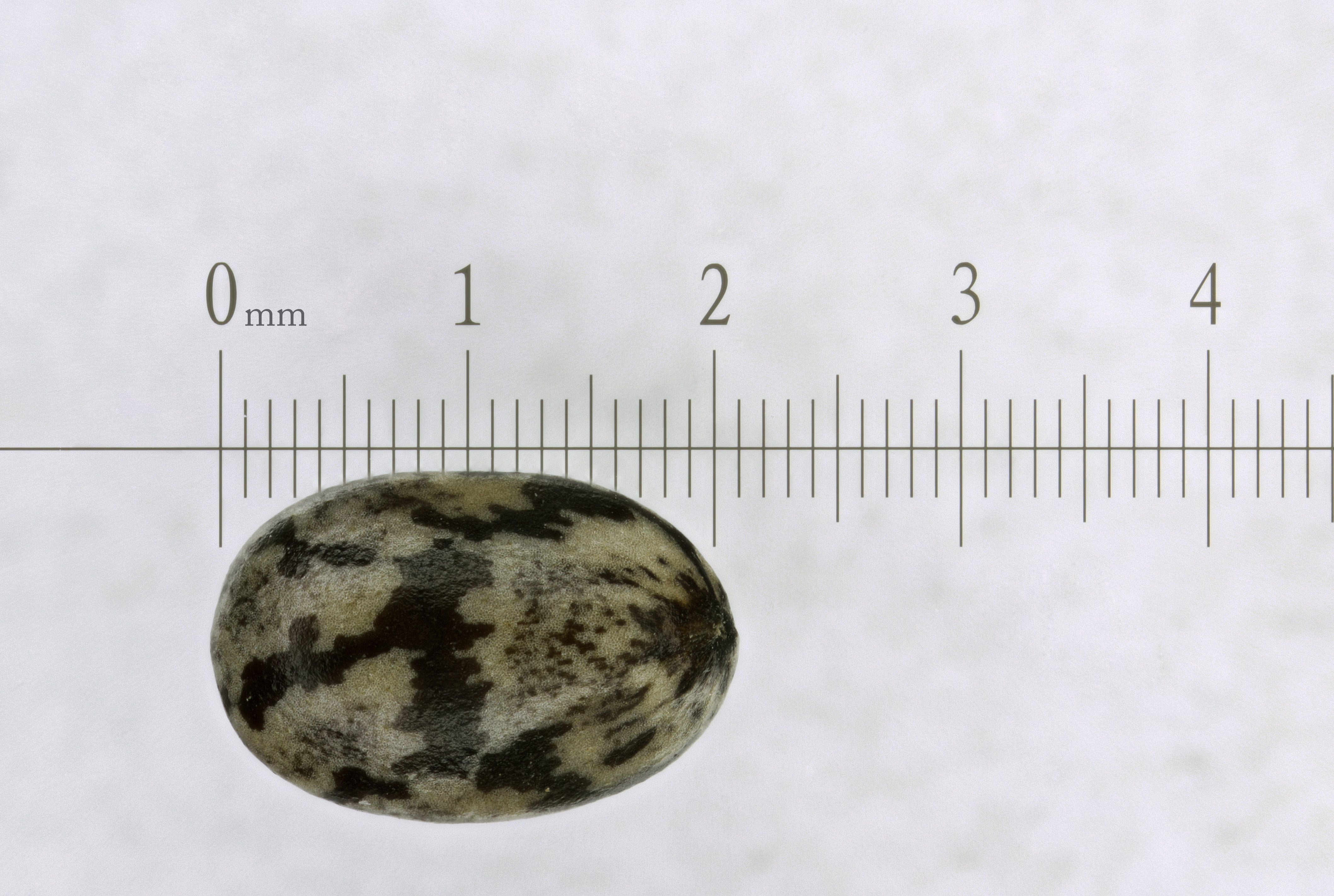 Profile of Chia seed to show size and detail.